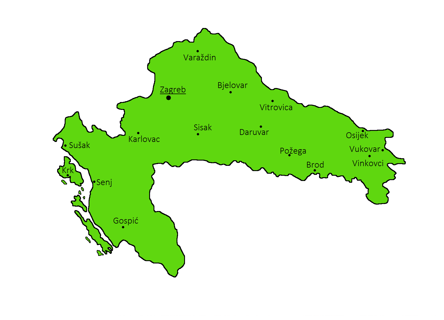 Map with the most important towns and cities, including the capital Zagreb.